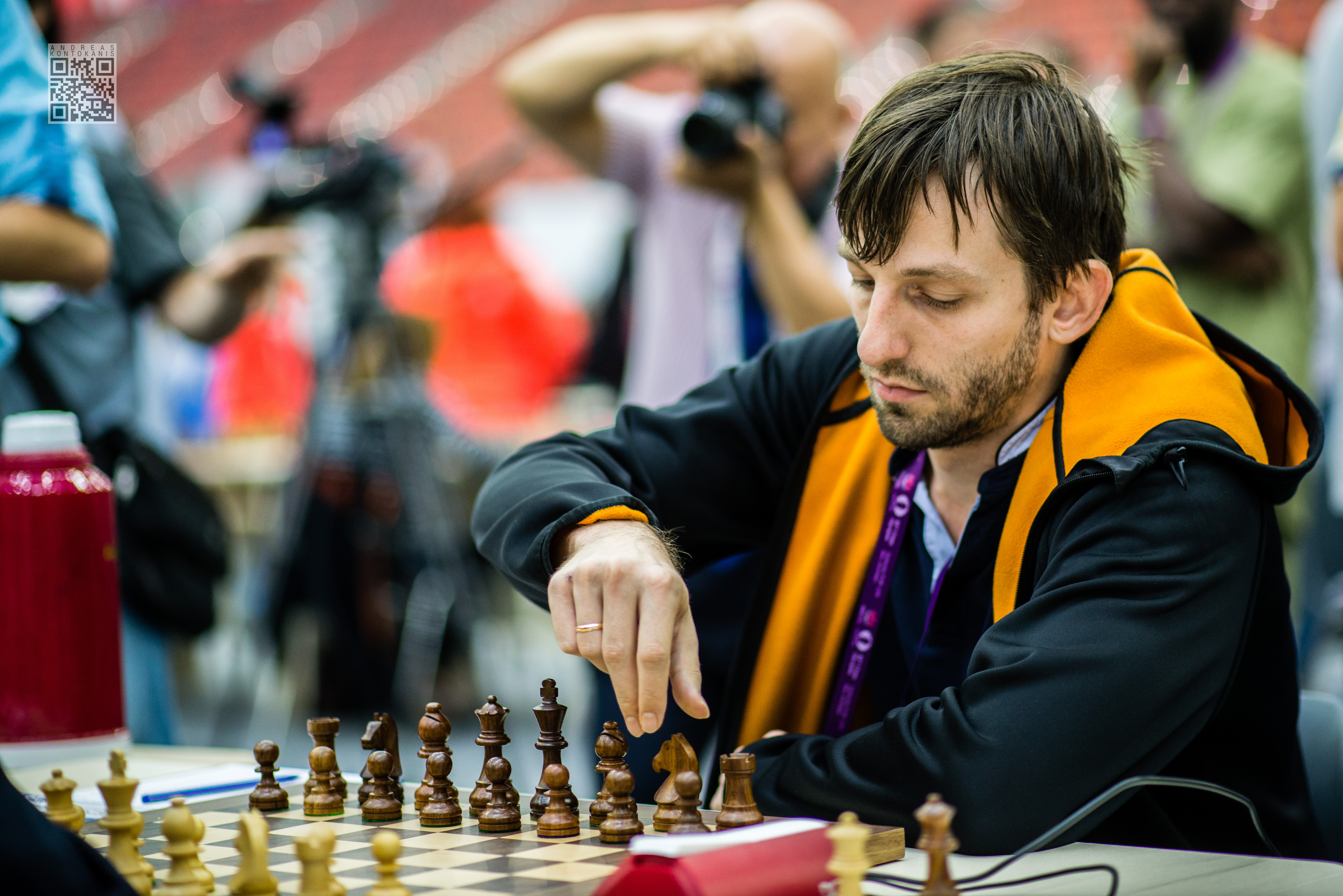 Grischuk Alexander makes his move